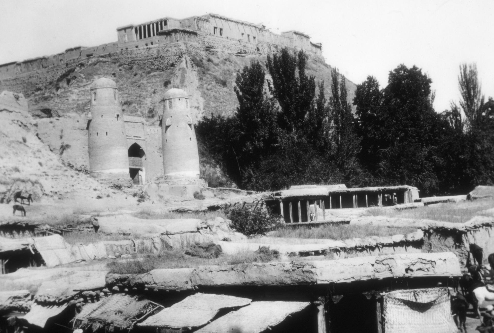 An old castle in Hisor, XV—XVII centuries, Tajikistan